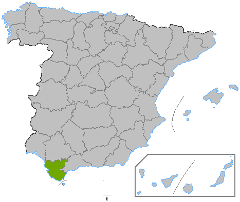 Location of the province of Cádiz, in Spain. Basado en: ProvPont.jpg Source: Designed by Satesclop. Original picture, designed by Sobreira.